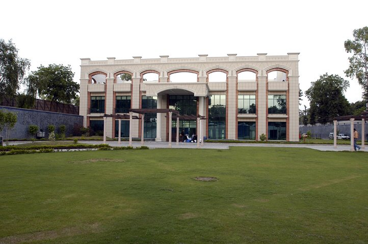 I took this picture November 2005 with my trusty Nikon D100. This is the IIPM Campus at New Delhi.